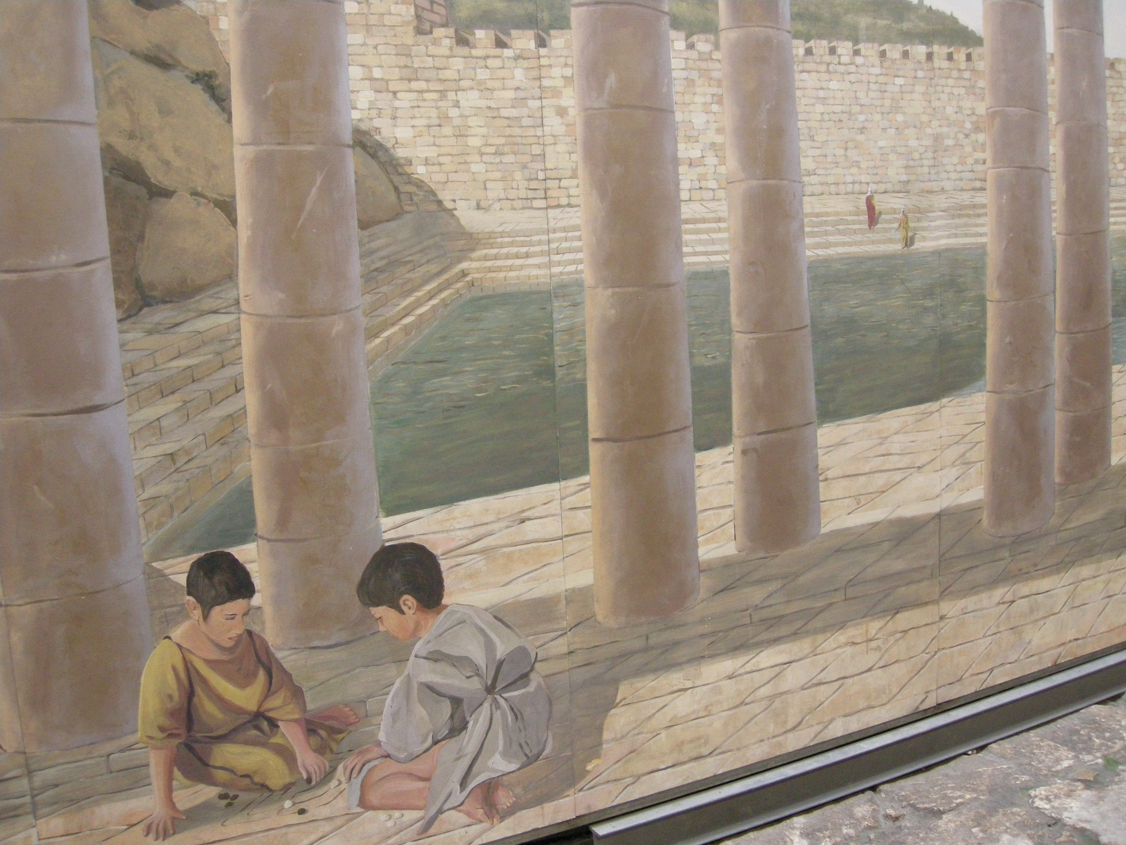 City of David